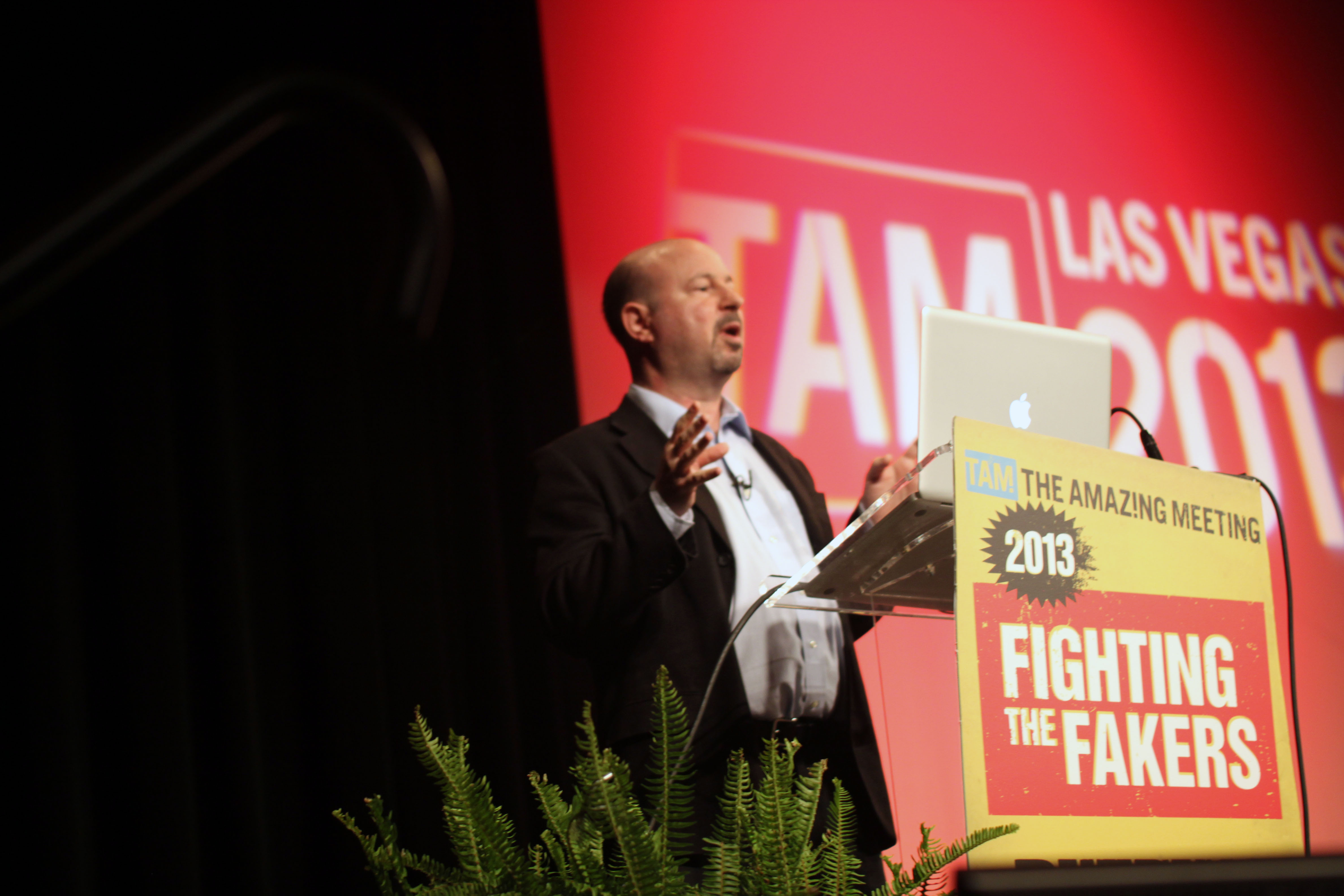 Dr. Michael E. Mann presents his talk "THE HOCKEY STICK AND THE CLIMATE WARS" to The Amazing Meeting in Las Vegas, July 13, 2013